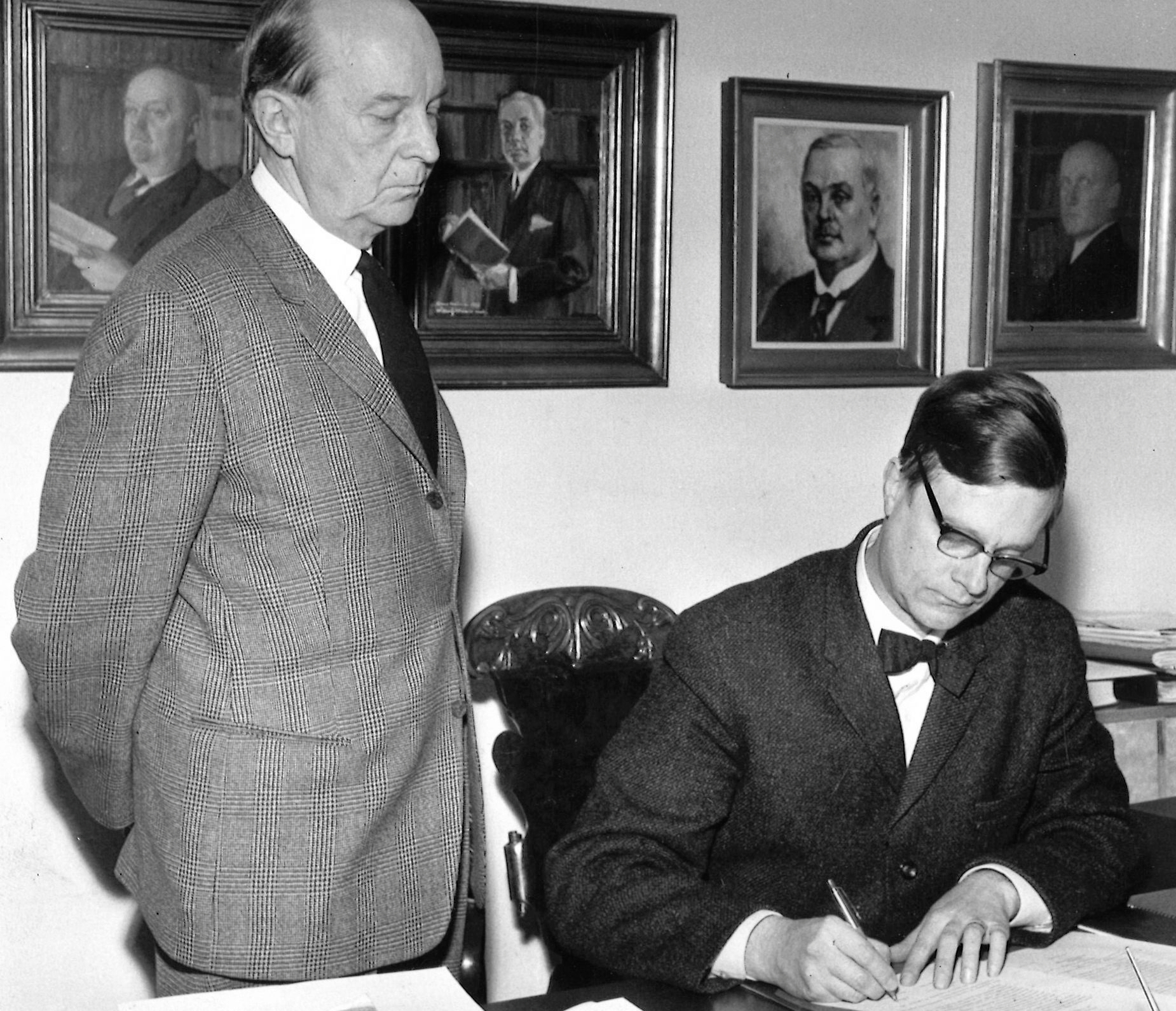 Photograph of the Finnish theatrical director Arvi Kivimaa and cartoonist Kari Suomalainen signing a deal on a comedy for the Finnish National Theatre.